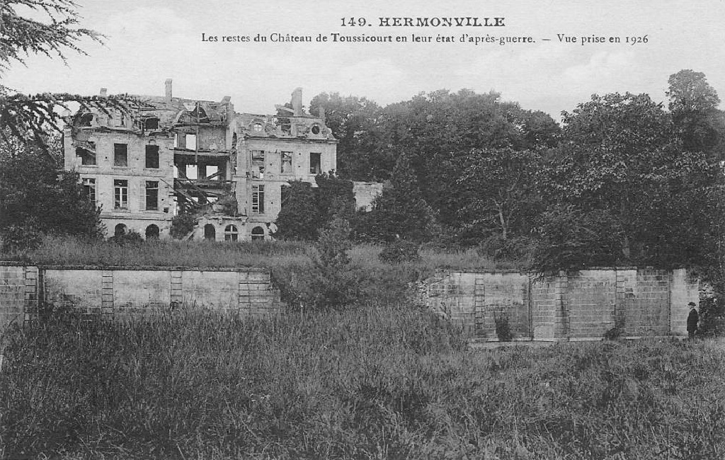 Toussicourt Castle - destroyed in 1917 during WW I